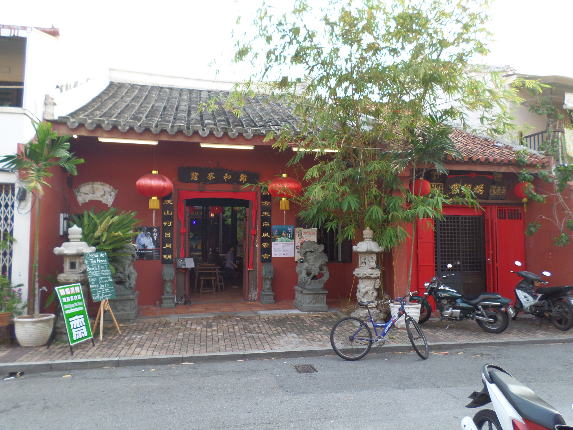 Cheng Ho Tea House, Chinatown, Malacca City, Malacca, Malaysia